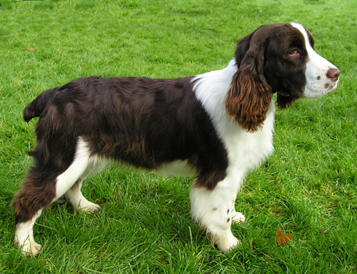 English Springer Spaniel solid liver and white "Spencer" (7 months old) Taken Feb 22,2004 at the SMART/USDAA dog agility competition in Salinas, CA. Photo by Ellen Levy Finch (Elf).